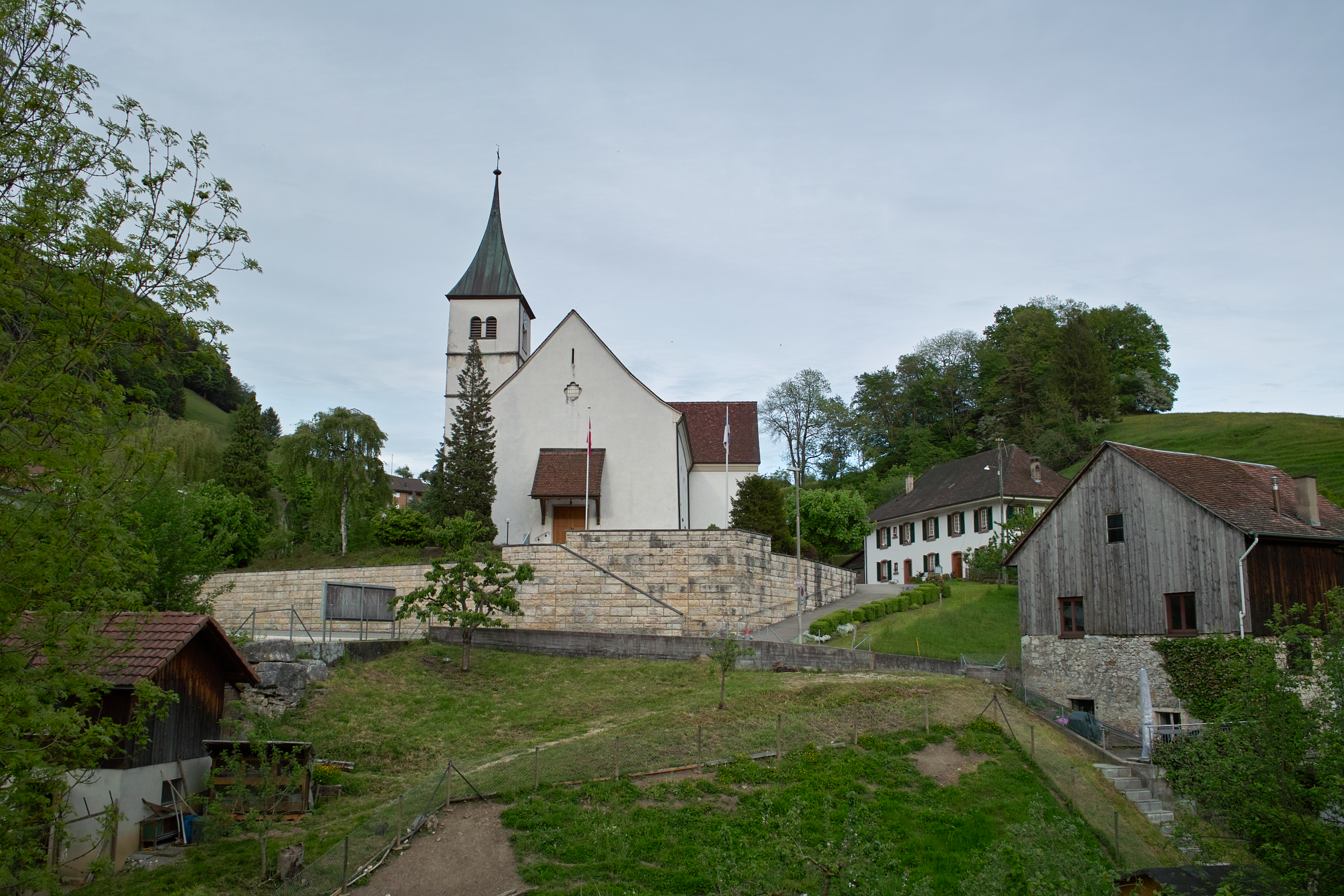 Church of Bärschwil, canton of Solothurn, Switzerland.